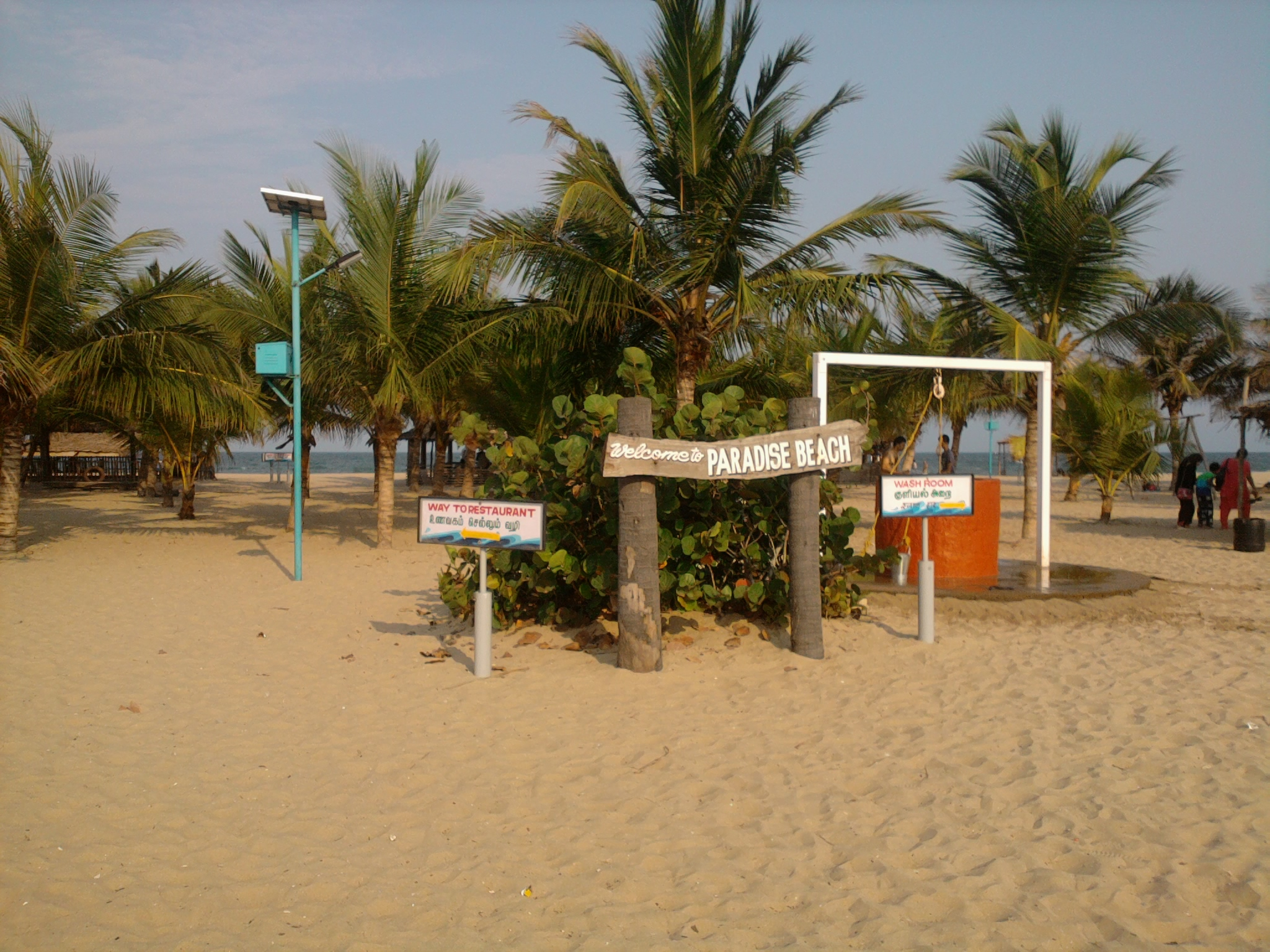 Paradise Beach is 7 km past Pondicherry, along the Cuddalore Main Road. Located at a point where the Chunnambar River backwaters meet the Bay of Bengal.